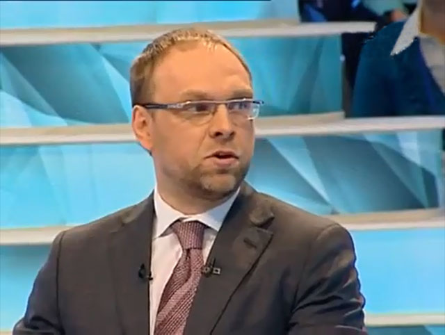 Serhiy Vlasenko, Ukrainian lawyer and politician, member of the Ukrainian Verkhovna Rada